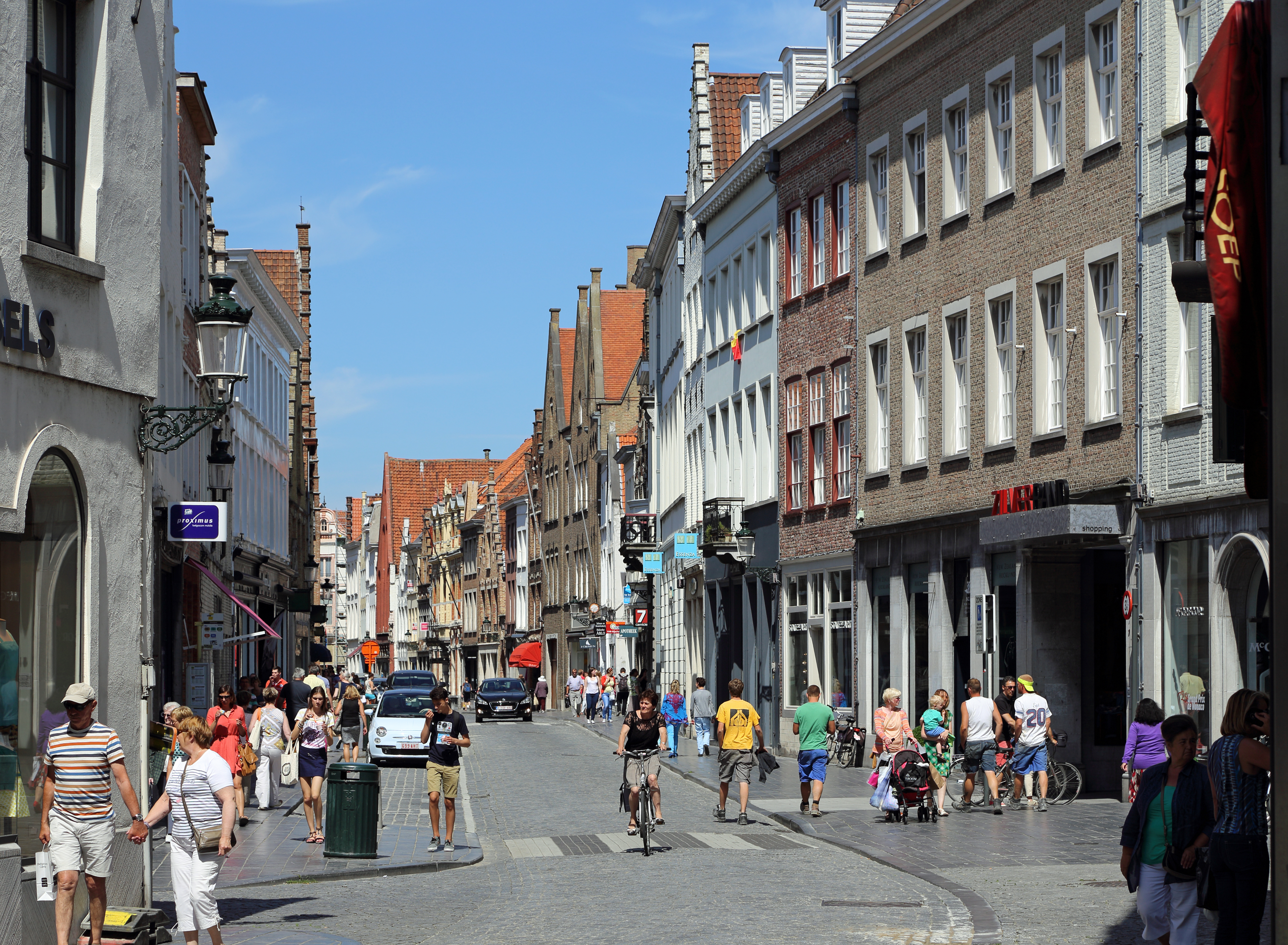 Bruges (Belgium): Noordzandstraat